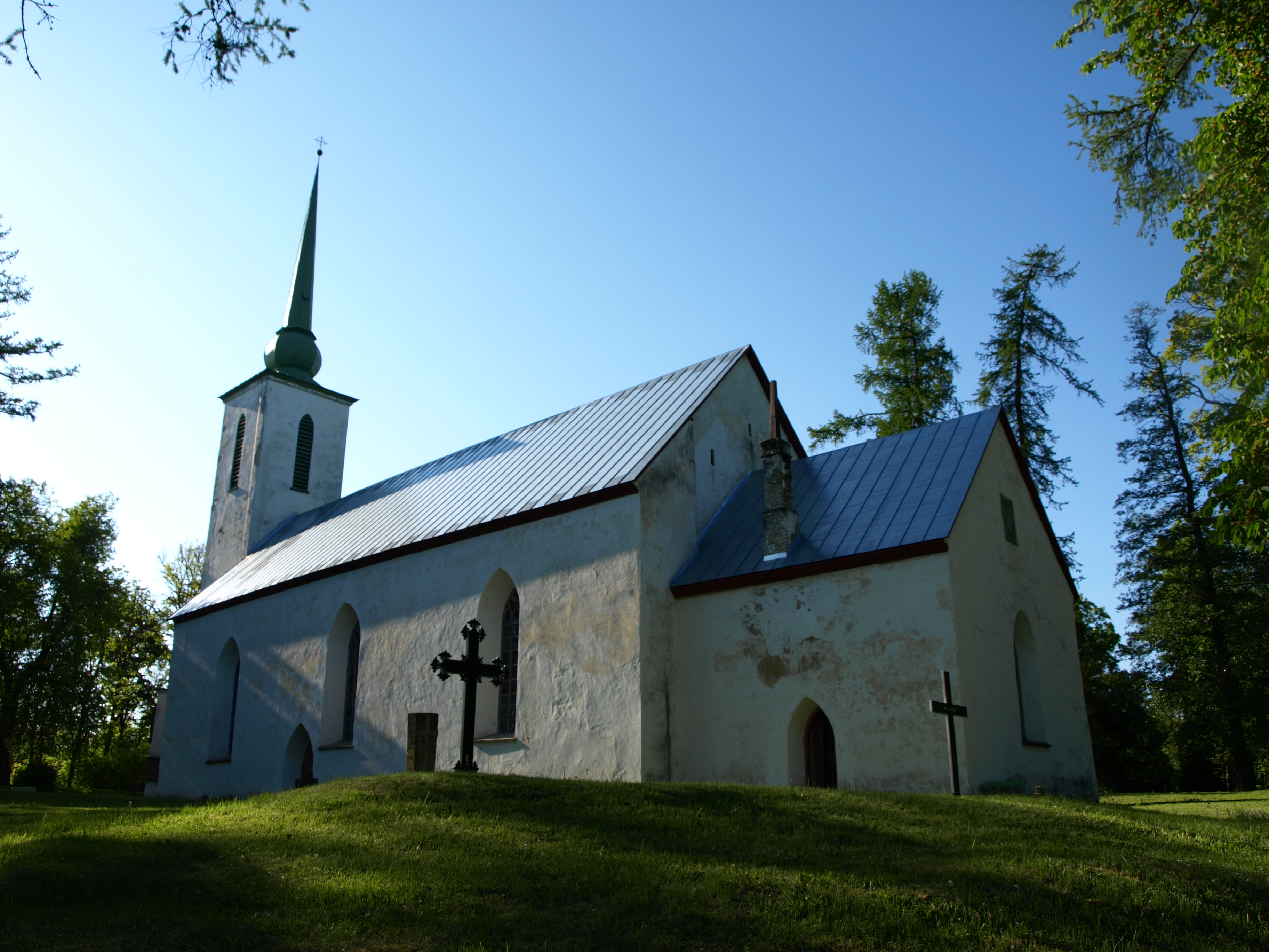 Vigala Church, built in the 15th century, rebuilt in the 19th century; tower built in the 1930s (architect Alar Kotli)